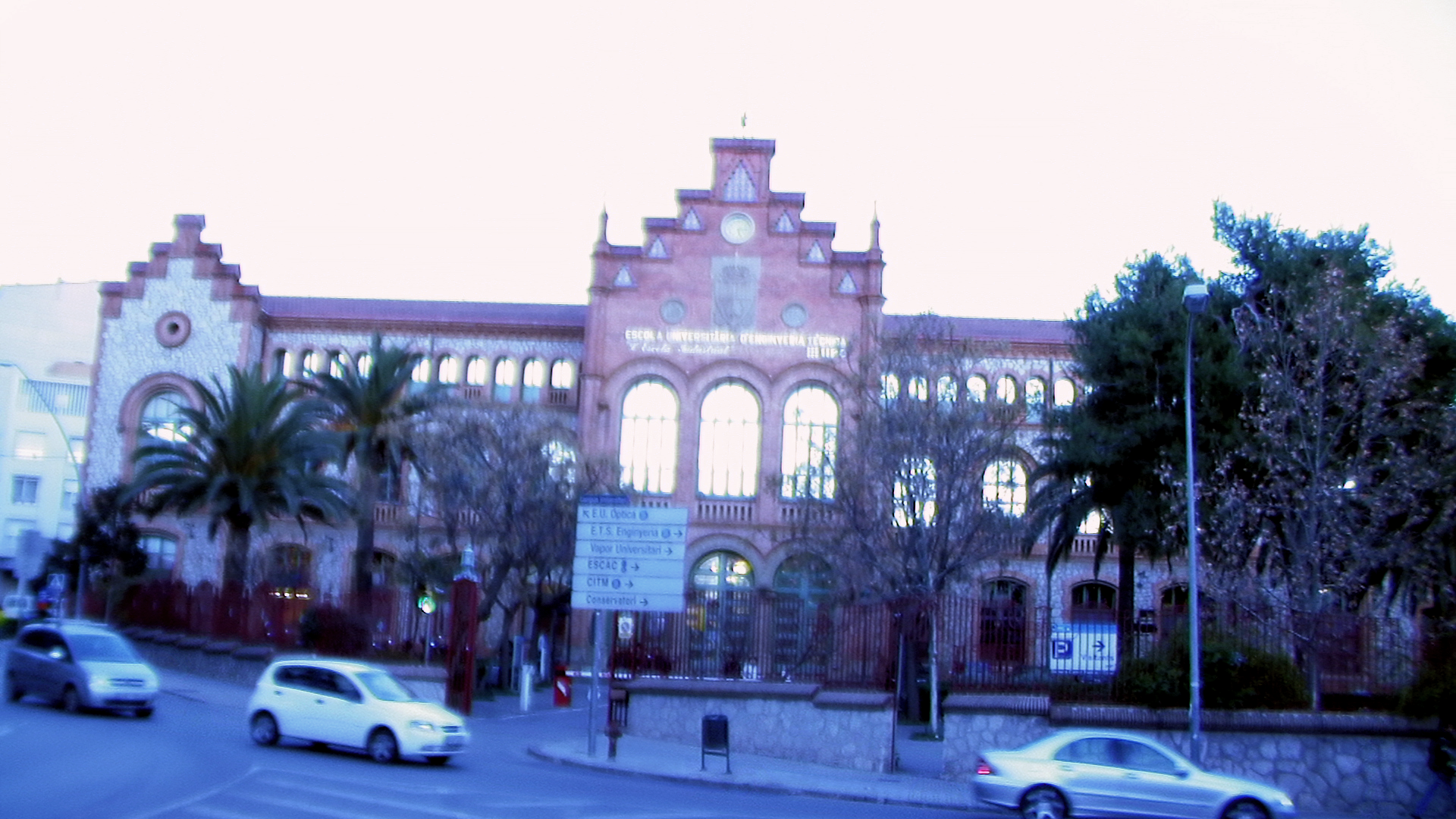 1080p is the shorthand identification for a set of HDTV high-definition video modes that are characterized by 1080 horizontal lines of vertical resolution[1] and progressive scan, meaning the image is not interlaced as is the case with the 1080i display standard.